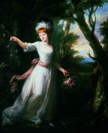 (c) The Holburne Museum; Supplied by The Public Catalogue Foundation